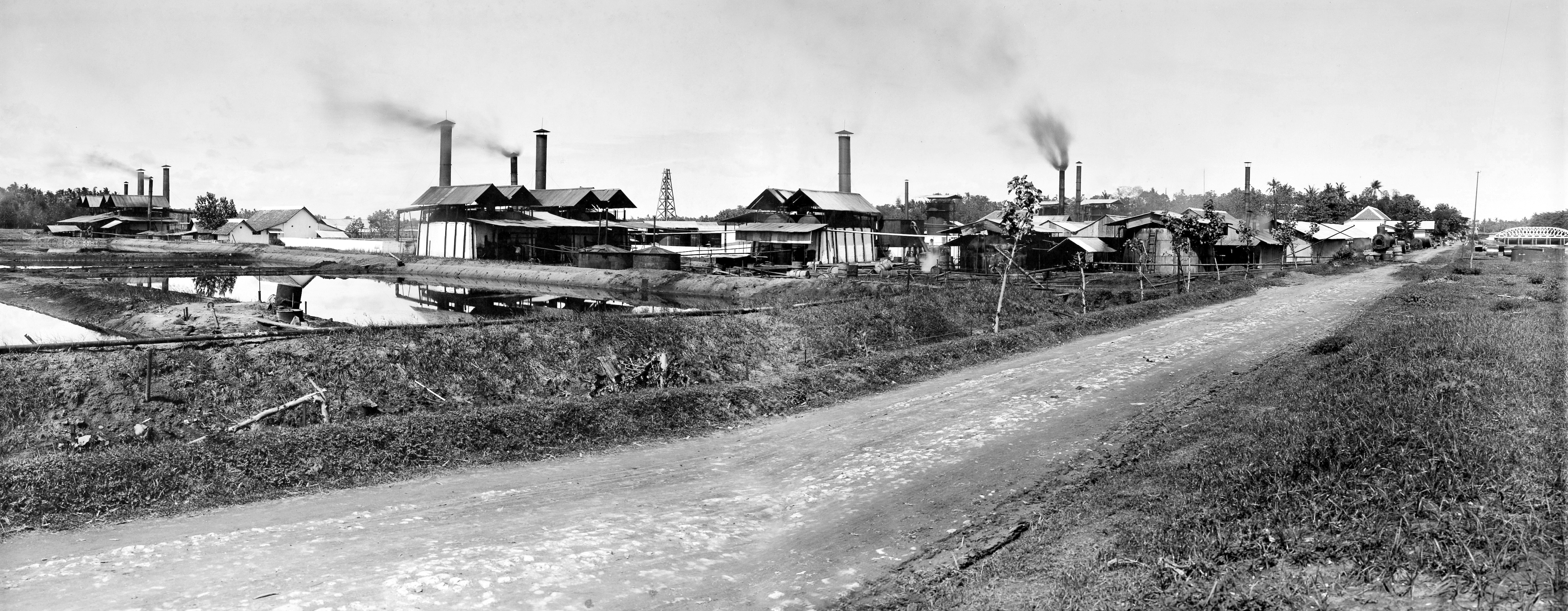 Panorama of the Refinery Dordtsche Petroleum Company in Cepu, residence Rembang, East Java, Indonesia (formerly Netherlands East Indies), approximately 1900